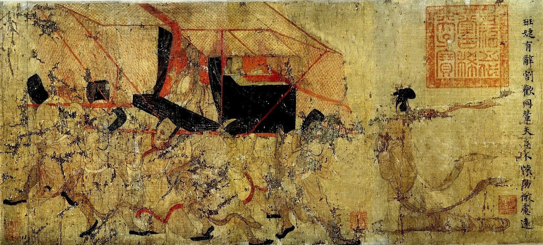 Scene 5 (Lady Ban refuses to ride in the imperial litter) of the British Museum copy of the "Admonitions Scroll", attributed to Gu Kaizhi.